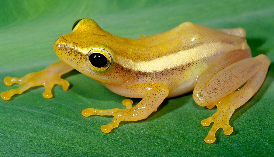 Feihyla vittatus at Pakke Tiger Reserve, East Kameng District, Arunachal Pradesh (India)